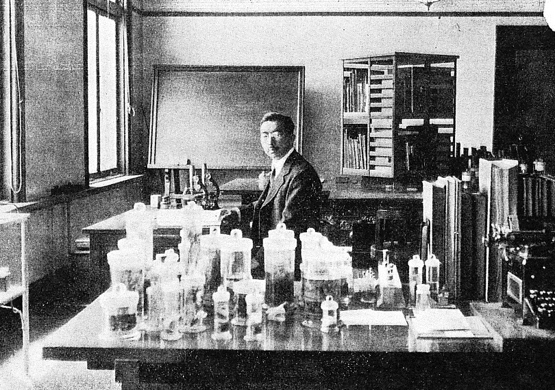 Emperor Showa in his laboratory